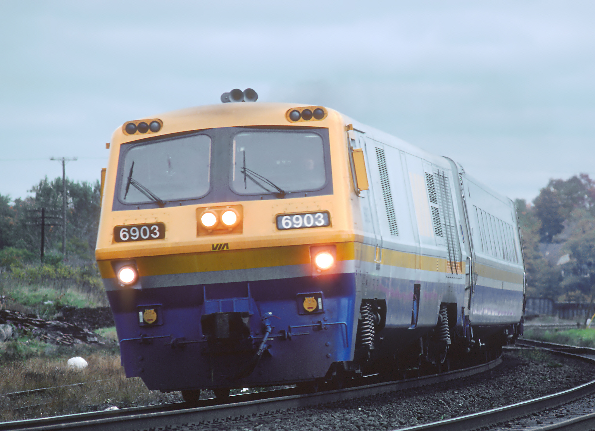 Roger Puta shot VIA LRC-2 6903 at Port Hope, ON in October 1981